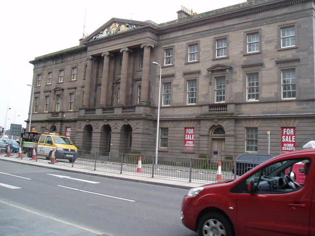 Custom's House Dundee